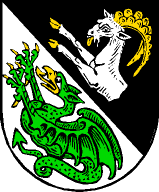 Source: "Fahnen-Gärtner GmbH, Mittersill" This image shows a flag, a coat of arms, a seal or some other official insignia. The use of such symbols is restricted in many countries. These restrictions are independent of the copyright status.